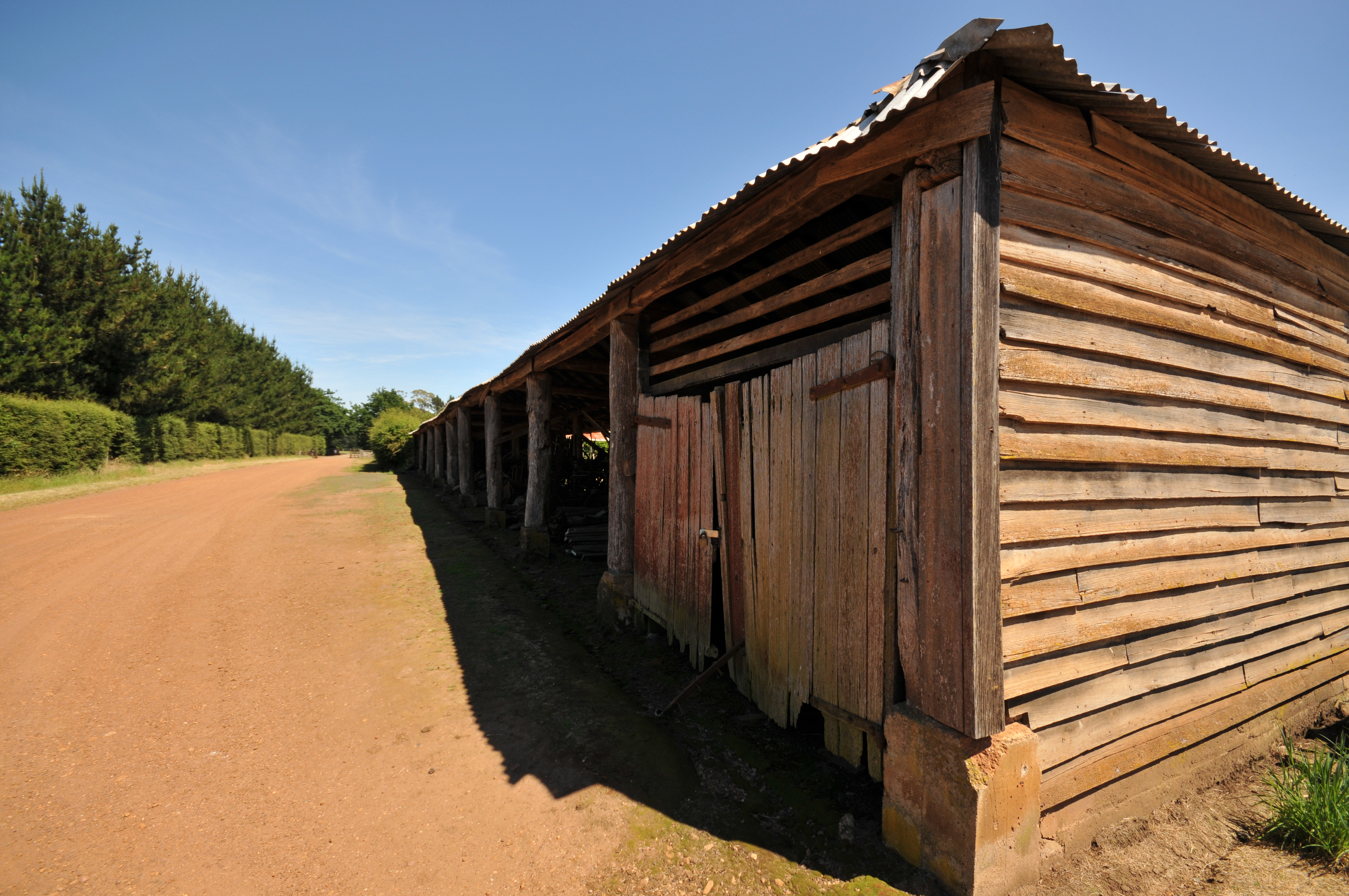 Machinery shed on the World Heritage listed property "Brickendon" in Longford, Tasmania, Australia